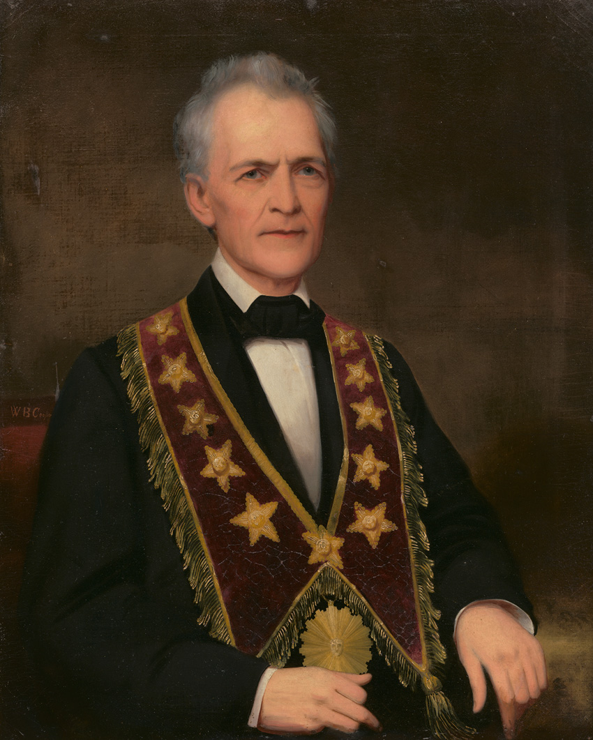 American politician and attorney, Robert L. Caruthers (1800–1882), in Masonic Grand Master of Tennessee regalia